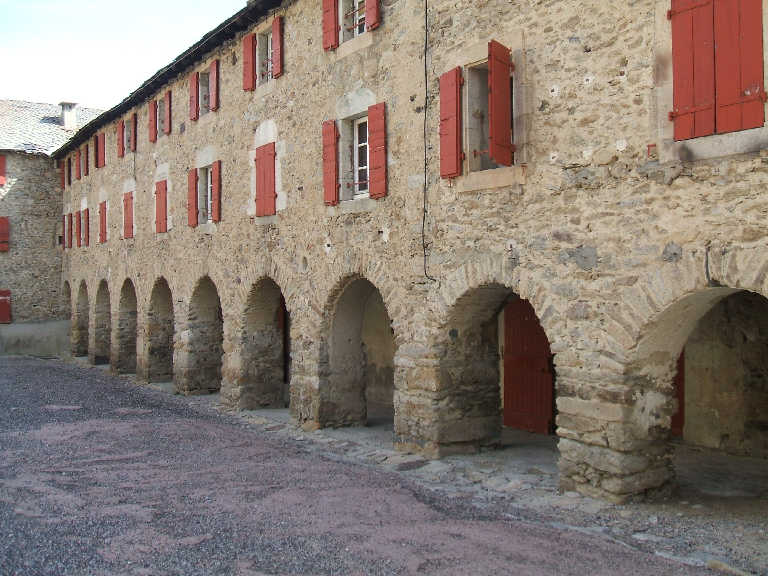 Font-Romeu-Odeillo-Via (Pyrénées-Orientales département, Languedoc-Roussillon région, France) : hermitage of Notre-Dame. Arches on the western side of the square.